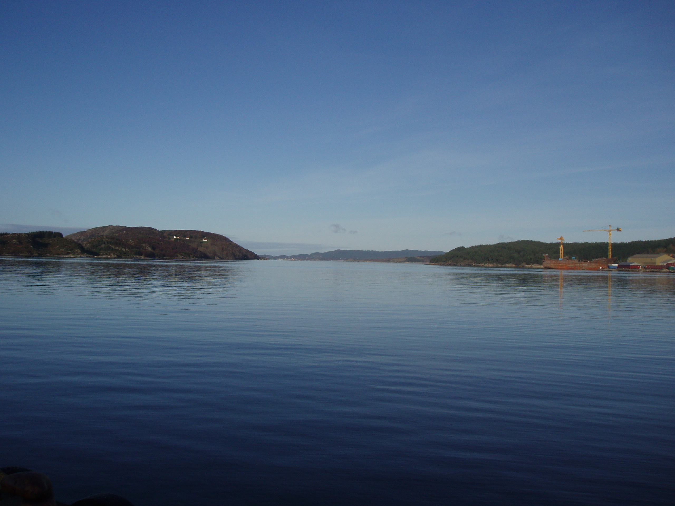 Fitjarvika, the Bay of Fitjar, seen from center of Fitjar.